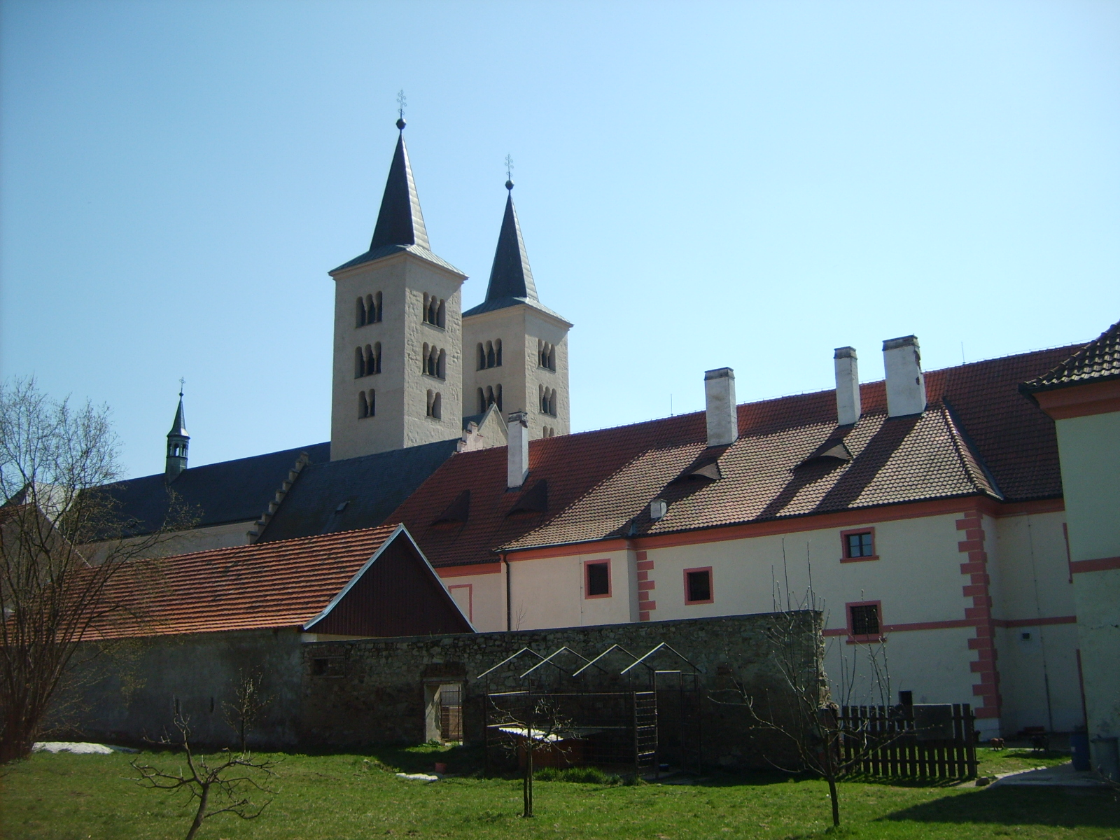 Towers of cathedrale in Milevsko montastery. Česky: Chrámové věže Milevského kláštera.